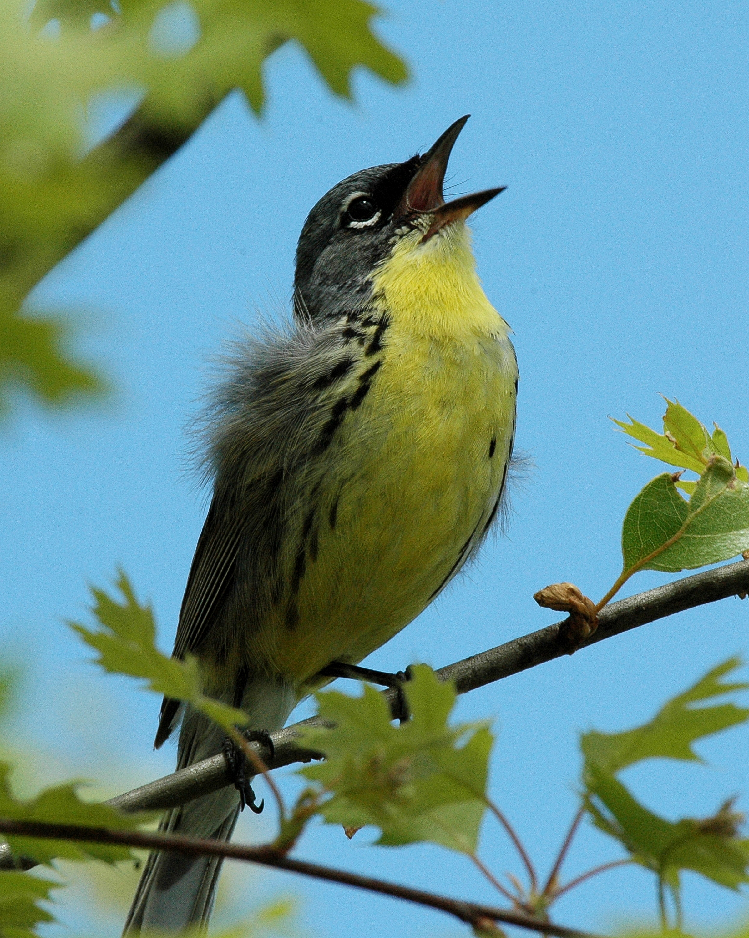 Kirtland's Warbler Setophaga kirtlandii, Grayling, Michigan. Photo By Jim Hudgins/USFWS